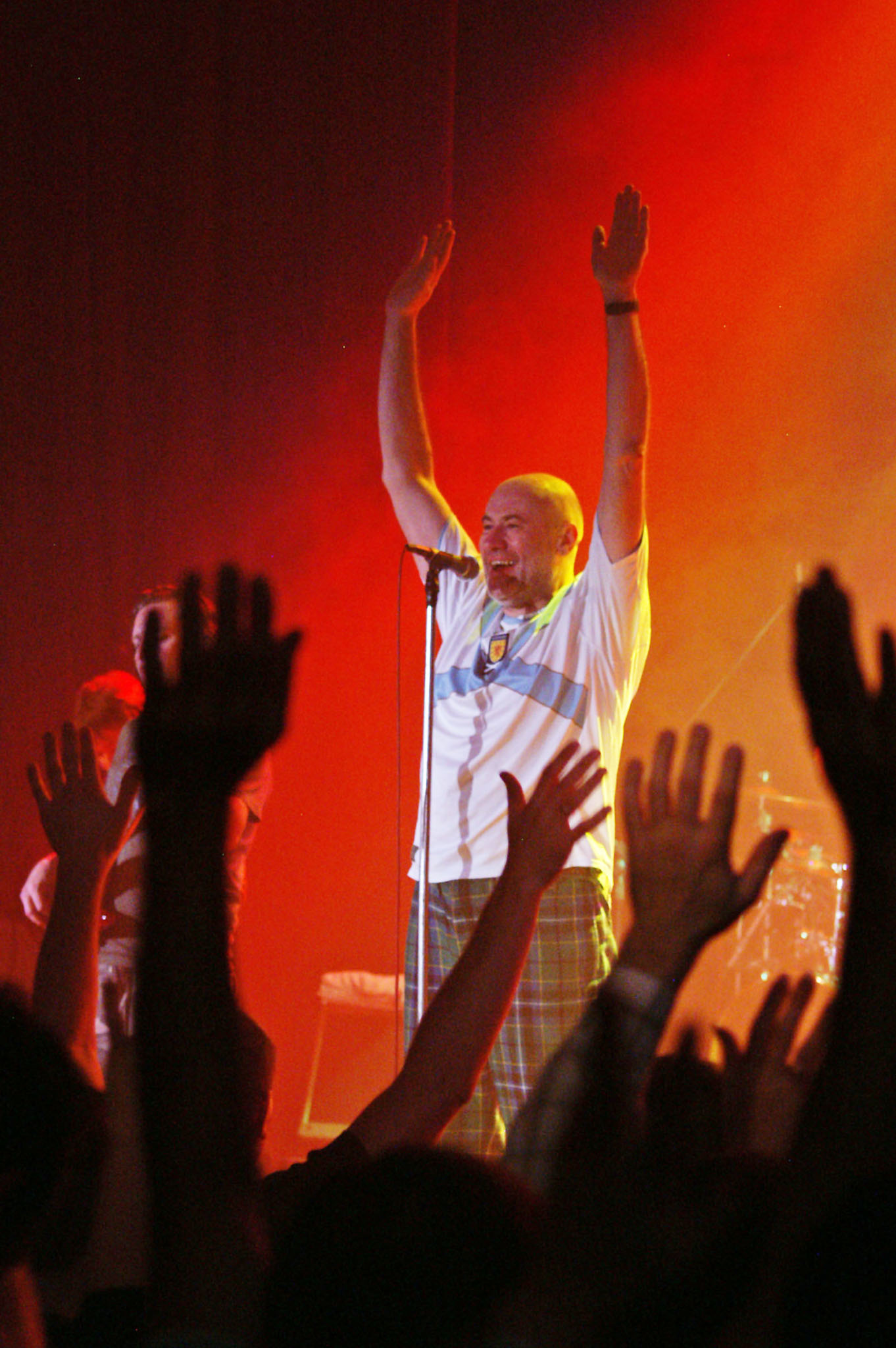 "Fish", Derek William Dick, member of Marillion progressive rock group during concert in Bielsko-Biala, Poland, 2007